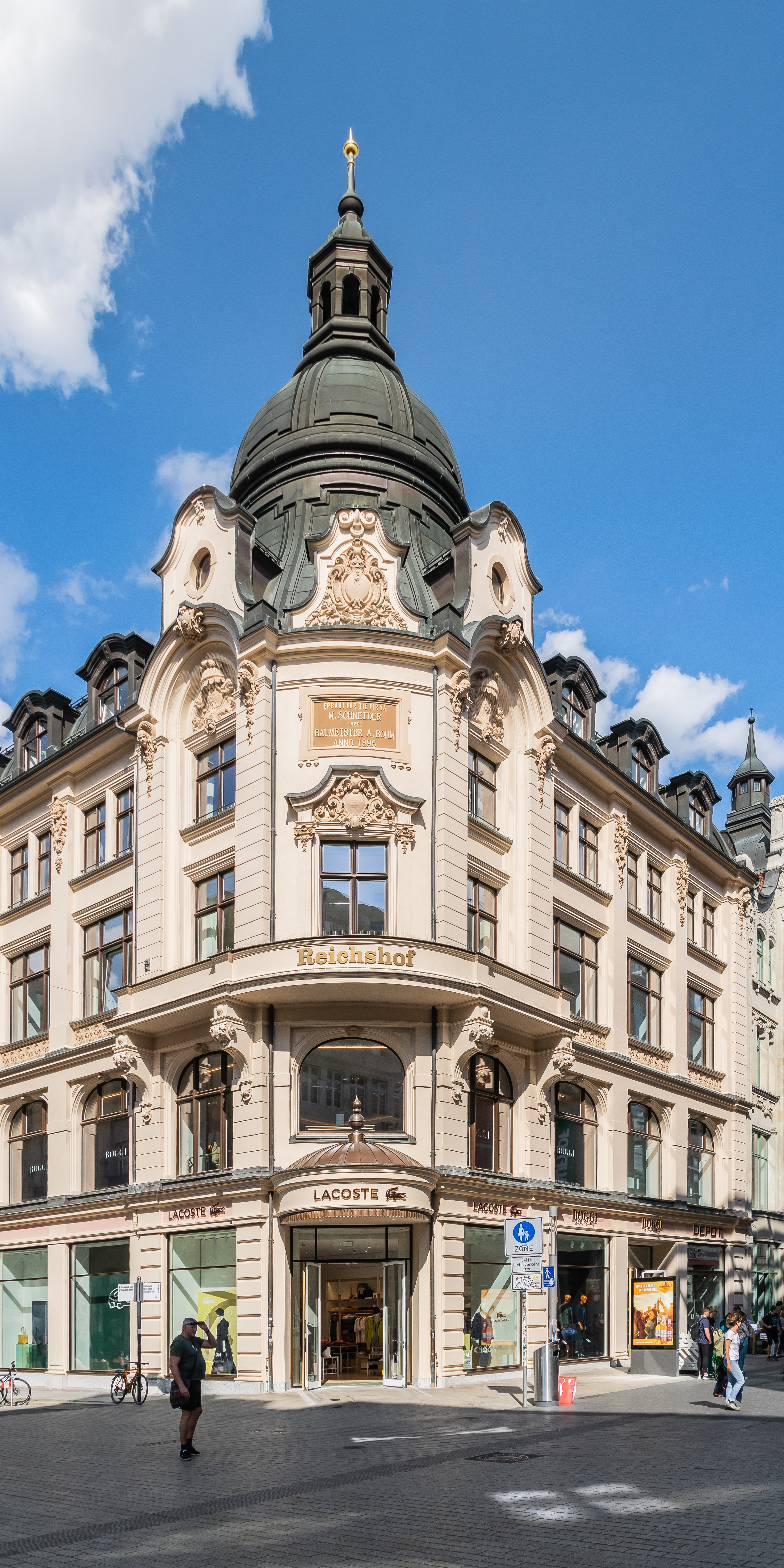 Building at Reichsstraße 2 in Leipzig, Saxony, Germany